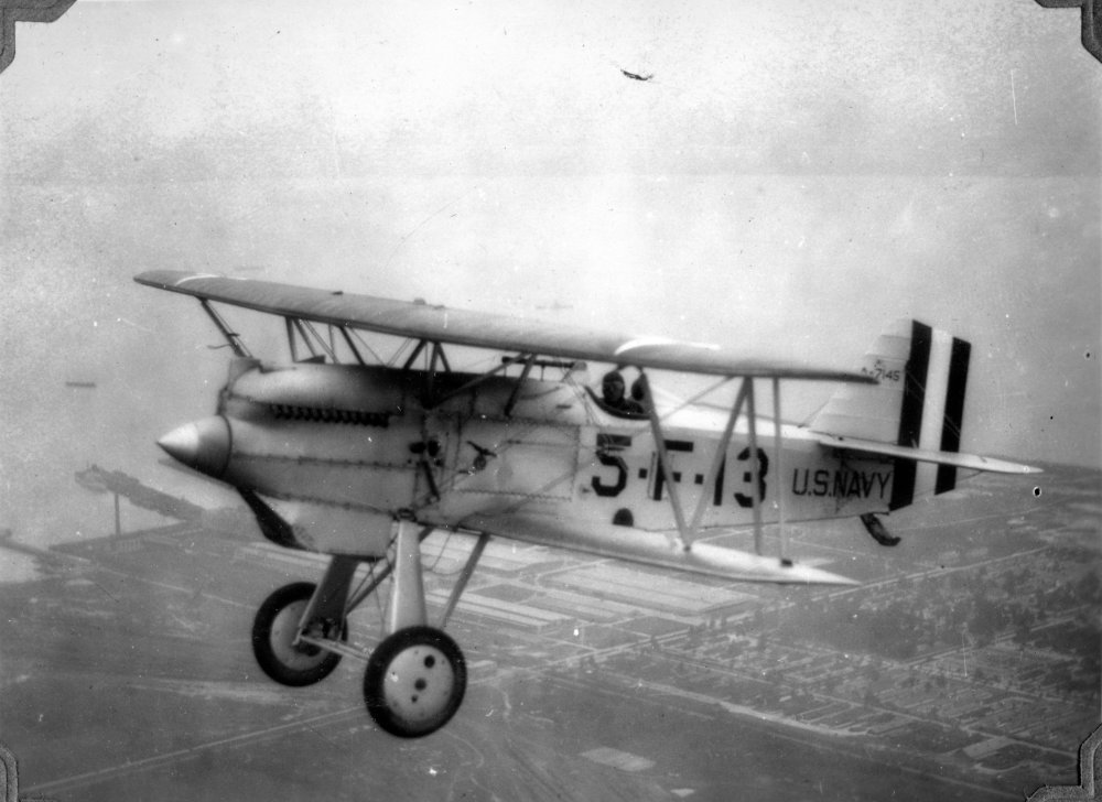 PictionID:38279525 - Catalog:AL-135A 195 Curtiss F6C-1 A-7145 VF-5B 5-F-13 - Filename:AL-135A 195 Curtiss F6C-1 A-7145 VF-5B 5-F-13.tif - This image is from a photo album donated to the Museum by JL Highfill, who was a photographer for the Navy before and during the Second World War-----------PLEASE TAG this image with any information you know about it, so that we can permanently store this data with the original image file in our Digital Asset Management System.-----------------SOURCE INSTITUTION: San Diego Air and Space Museum Archive